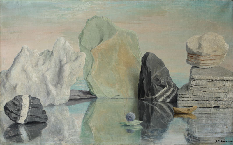 Oil on canvas.